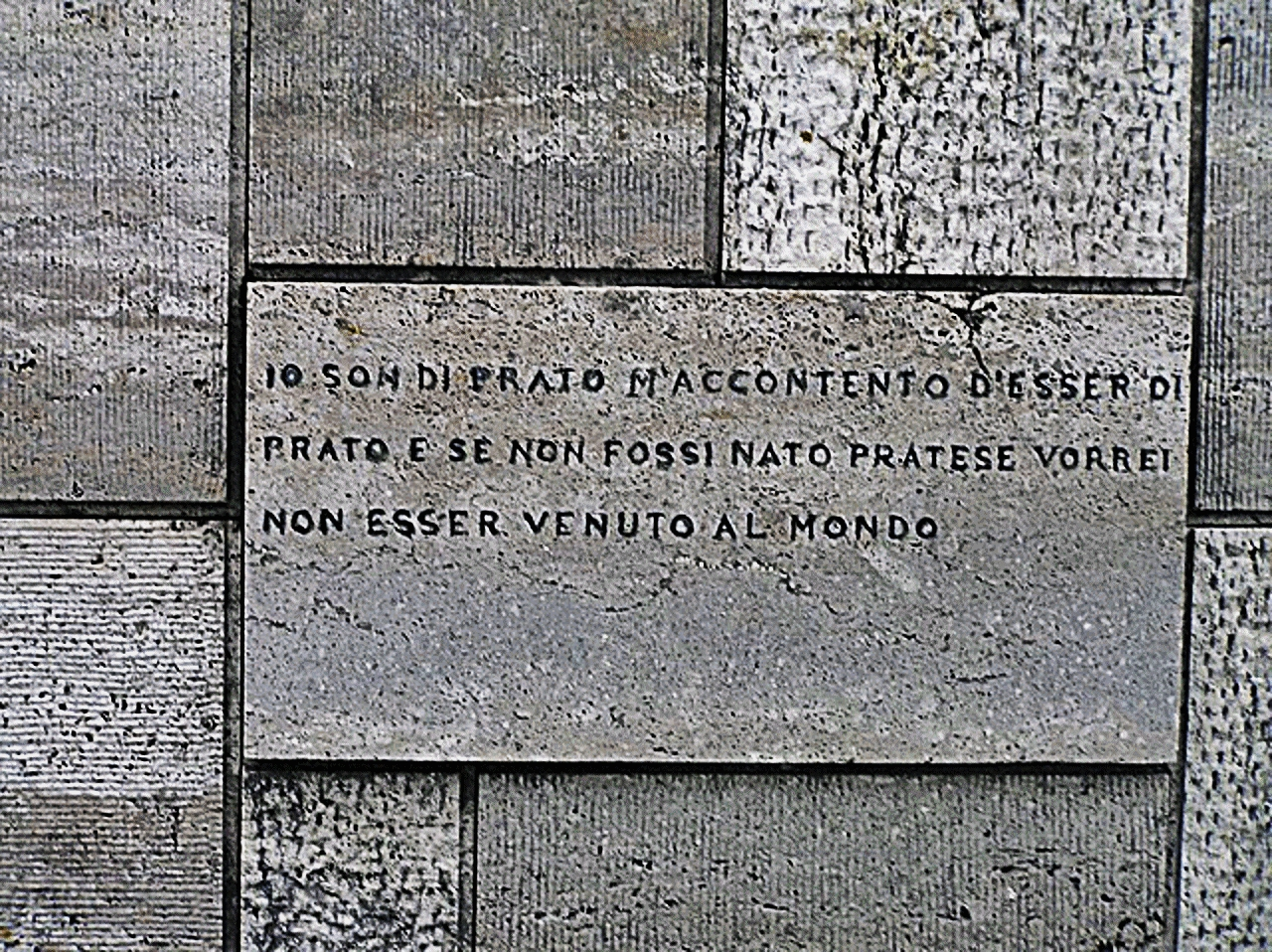 tomb of Curzio Malaparte